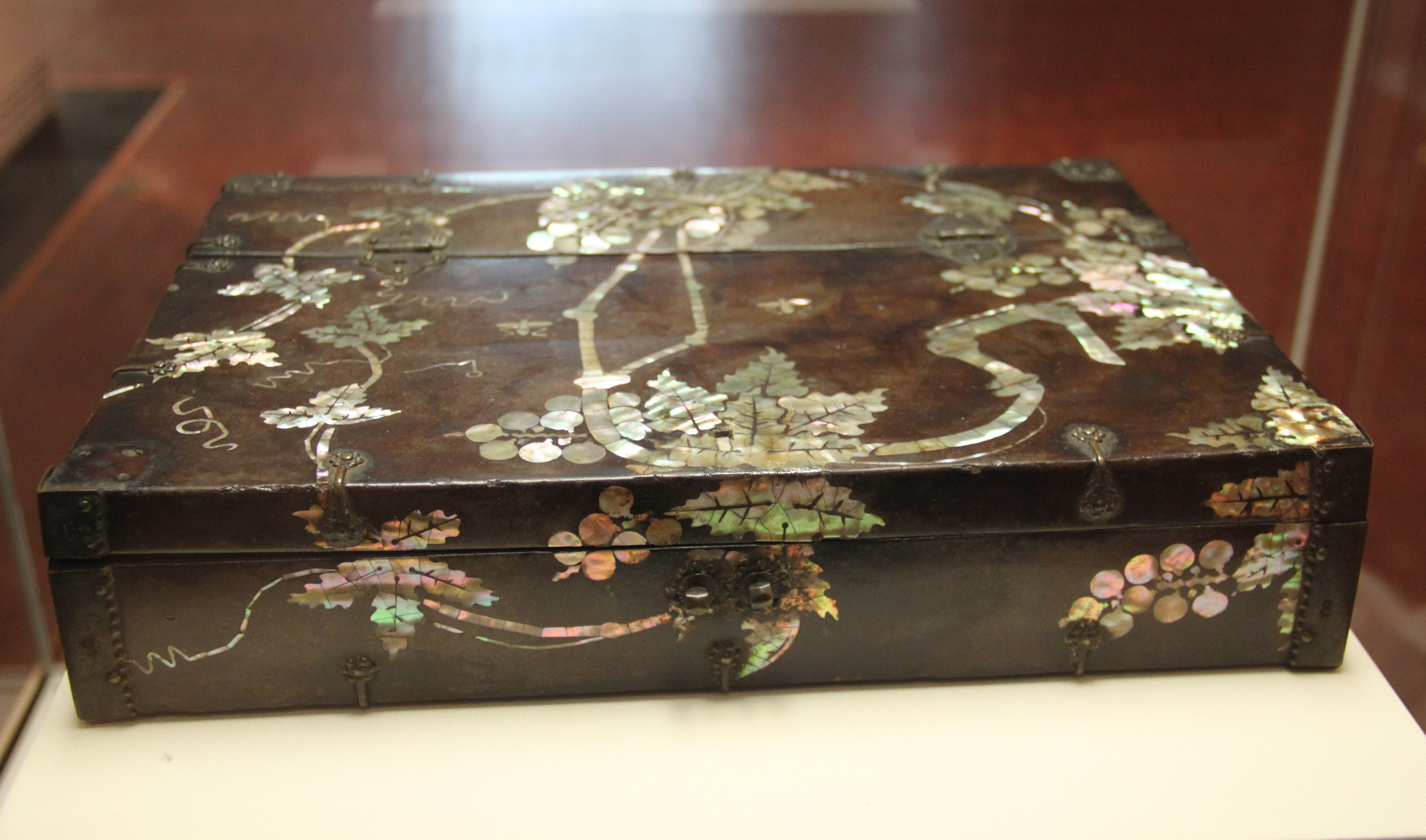 Lacquered Document Box Inlaid with Mother-of-Pearl. Joseon, 18th c. H. 7.6 cm. National Museum of Korea.